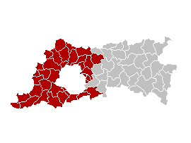 Location of Arrondissement Halle-Vilvoorde in Belgium.